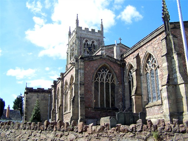 Sileby parish church taken by kev747